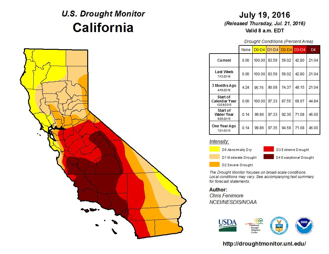 U.S. Drought Monitor: California